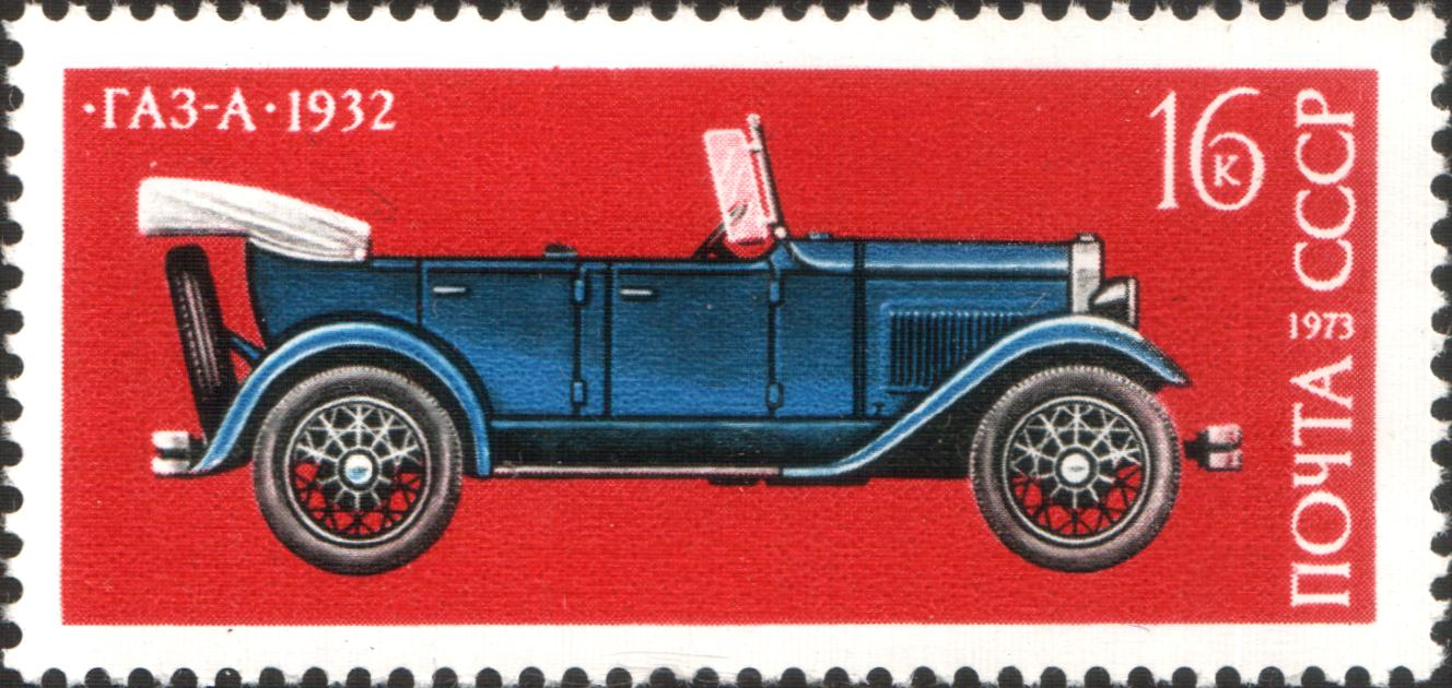 USSR stamp